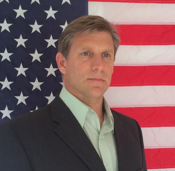 Zoltan Istvan public profile photo